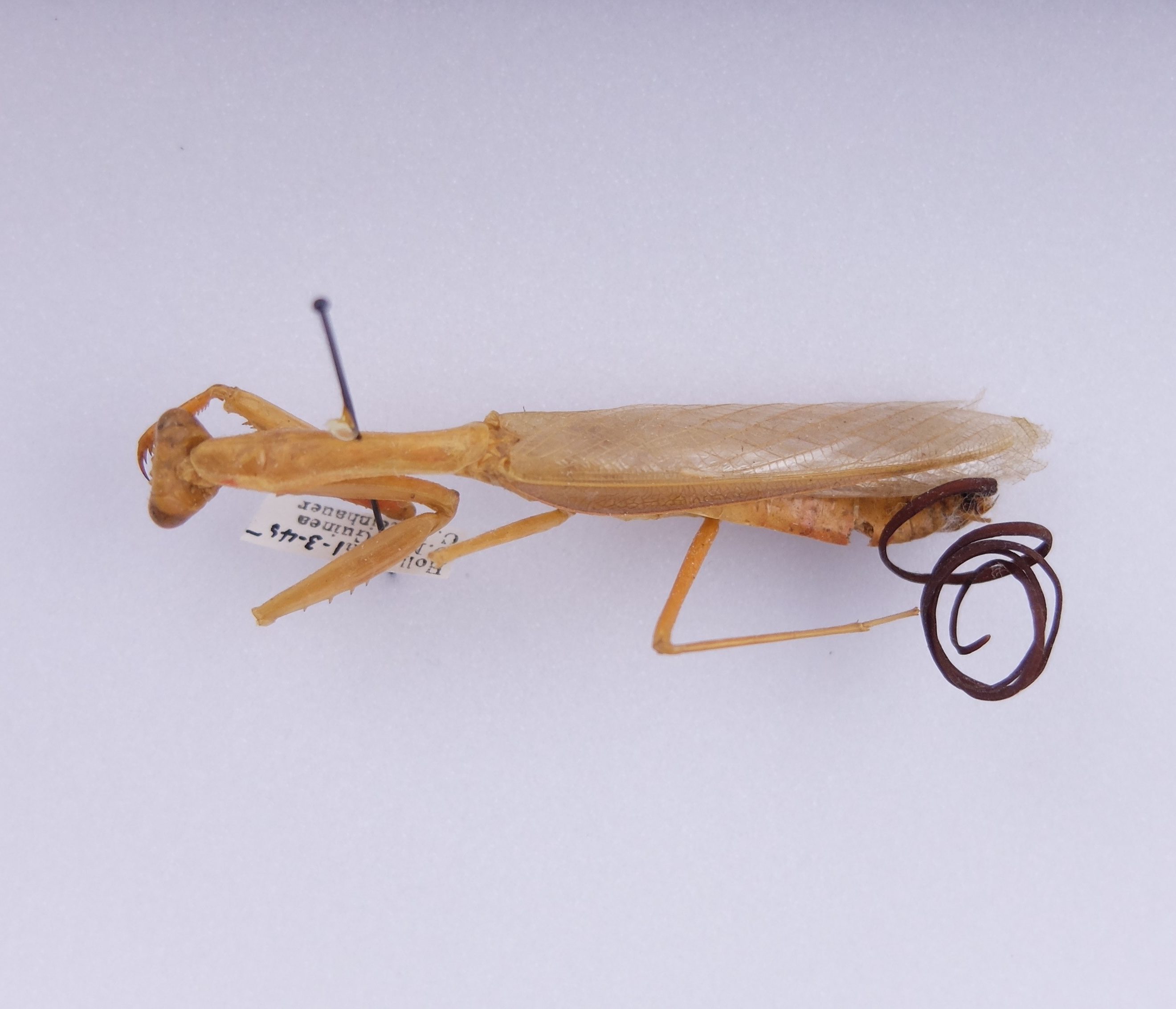 Unidentified Mantis and Unidentified Nematomorpha